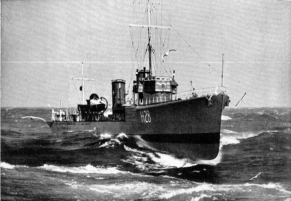 Two photographic studies of HMS Sturdy. In the lower picture she is shown battling her way through a gale. Photo: Chrles E. Brown